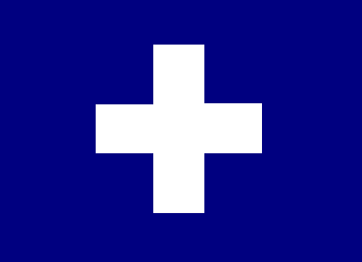 VI Corps, Army of the Potomac, 2nd Division Badge